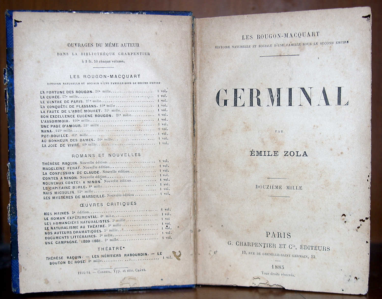 This is image from old book GERMINAL (original printed 1885) that has been more than 70 years old